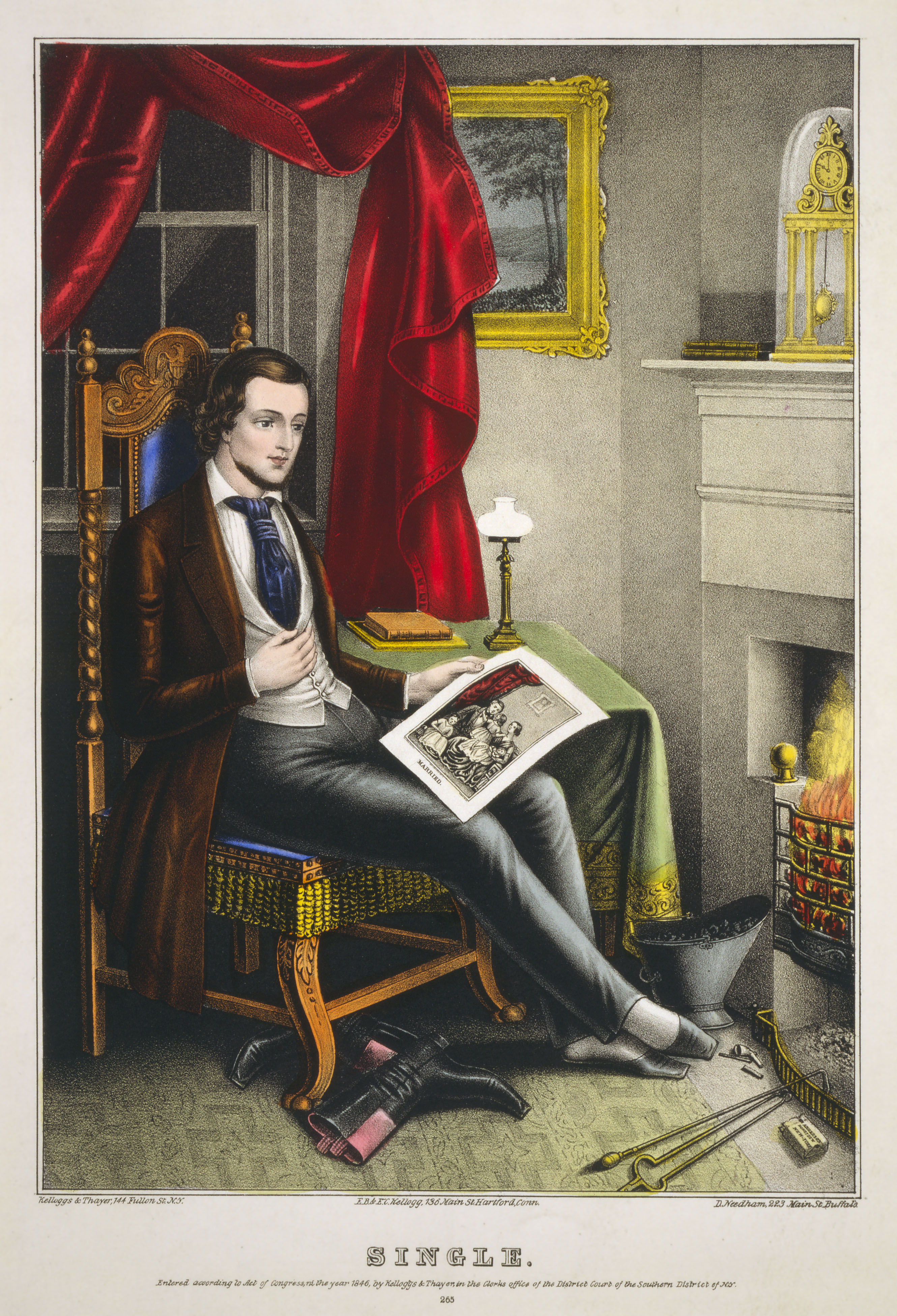 "Single", an 1846 engraved print showing a man sitting by the fire in his solitary abode and lamenting his bachelorhood. His boots lie on the floor; presumably he has had to take them off himself. A broken tobacco-pipe(?) is also on the floor. He holds in his hand another print, titled "Married", showing a man with wife and three children. Artists' signature at lower right: "Anderson Honeydew, New-York". Edited from file at the Library of Congress website. Bibliographic information found at LoC site: TITLE: Single / Kelloggs & Thayer, N.Y. ; E.B. & E.C. Kellogg, Hartford, Conn. ; D. Needham, Buffalo. CALL NUMBER: PGA - Kellogg--Single (A size) (A size) [P&P] REPRODUCTION NUMBER: LC-USZC4-6020 (color film copy transparency) LC-USZ62-84993 (b&w film copy neg.) SUMMARY: Man seated in chair, looking at picture of a family. MEDIUM: 1 print : lithograph, color. CREATED/PUBLISHED: c1846. CREATOR: E.B. & E.C. Kellogg (Firm) NOTES: Copyright by Kelloggs & Thayer. SUBJECTS: Bachelors--1840-1850. Families--1840-1850. FORMAT: Lithographs Color 1840-1850. REPOSITORY: Library of Congress Prints and Photographs Division Washington, D.C. 20540 USA DIGITAL ID: (color film copy transparency) cph 3g06020 (b&w film copy neg.) cph 3b31536 CARD #: 98516913